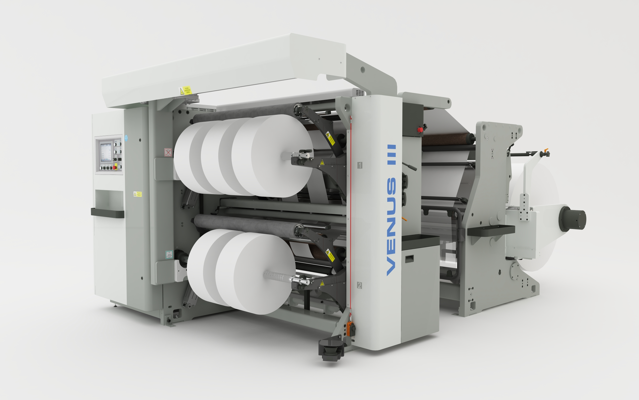 Soma Venus III - Slitter Rewinder with integrated unwind unit.